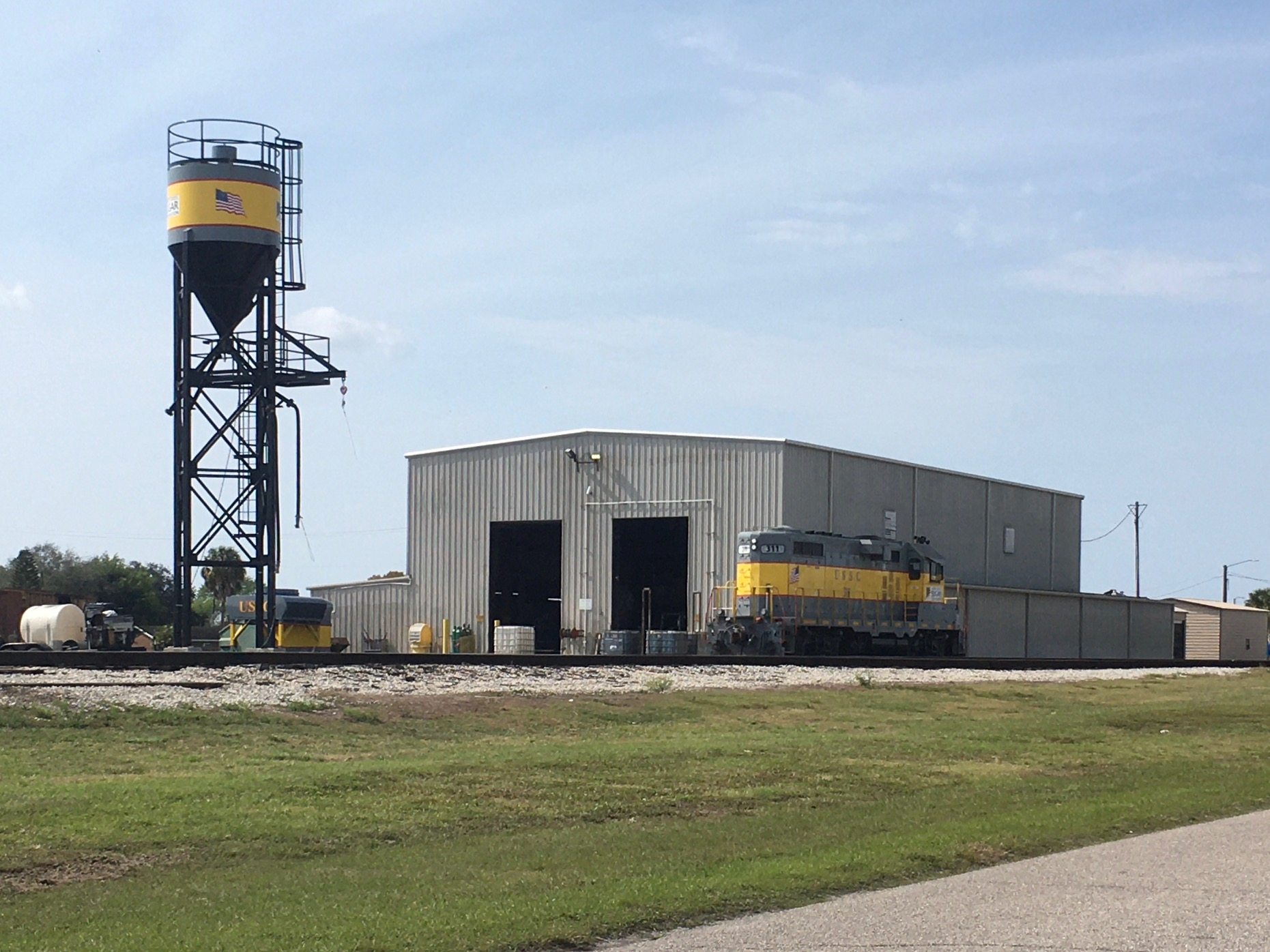 SCFE Maintenance Facility in Clewiston